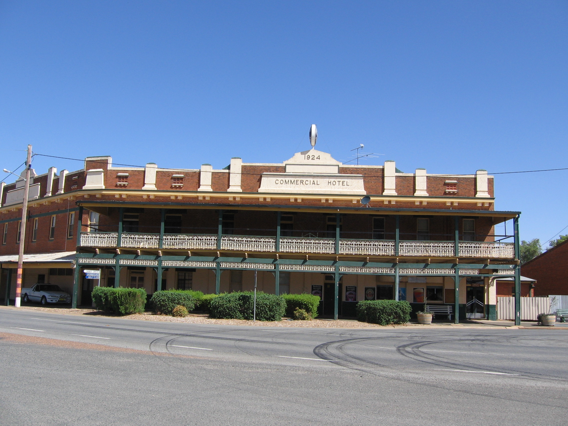 Commercial Hotel at Barellan, New South Wales